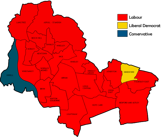 Wigan ward map with political colouring.